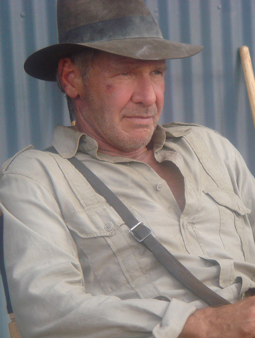 First shot of Indiana Jones on the set of part 4